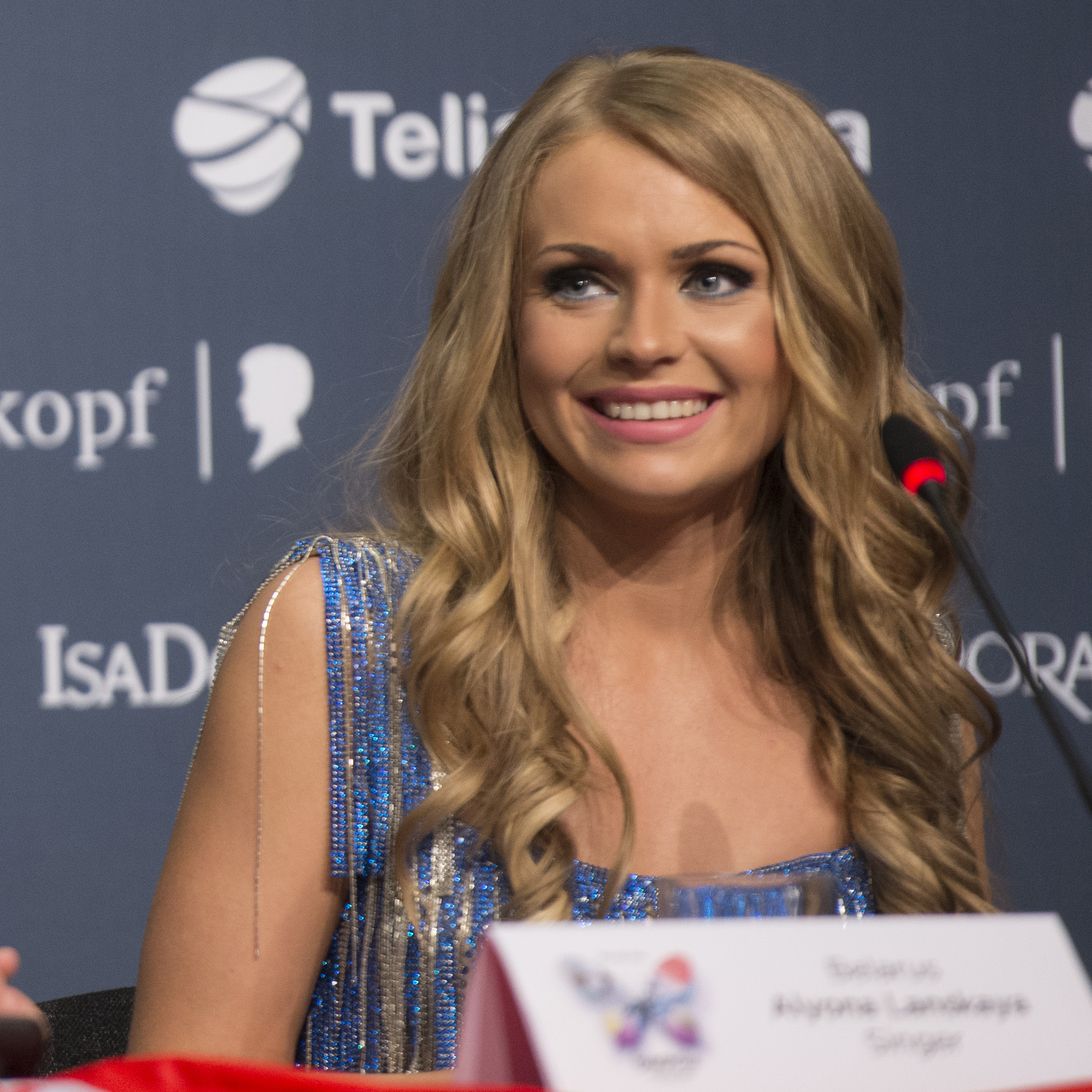 Alyona Lanskaya at a press conference during the Eurovision Song Contest 2013 Malmö. (Help translate this text)